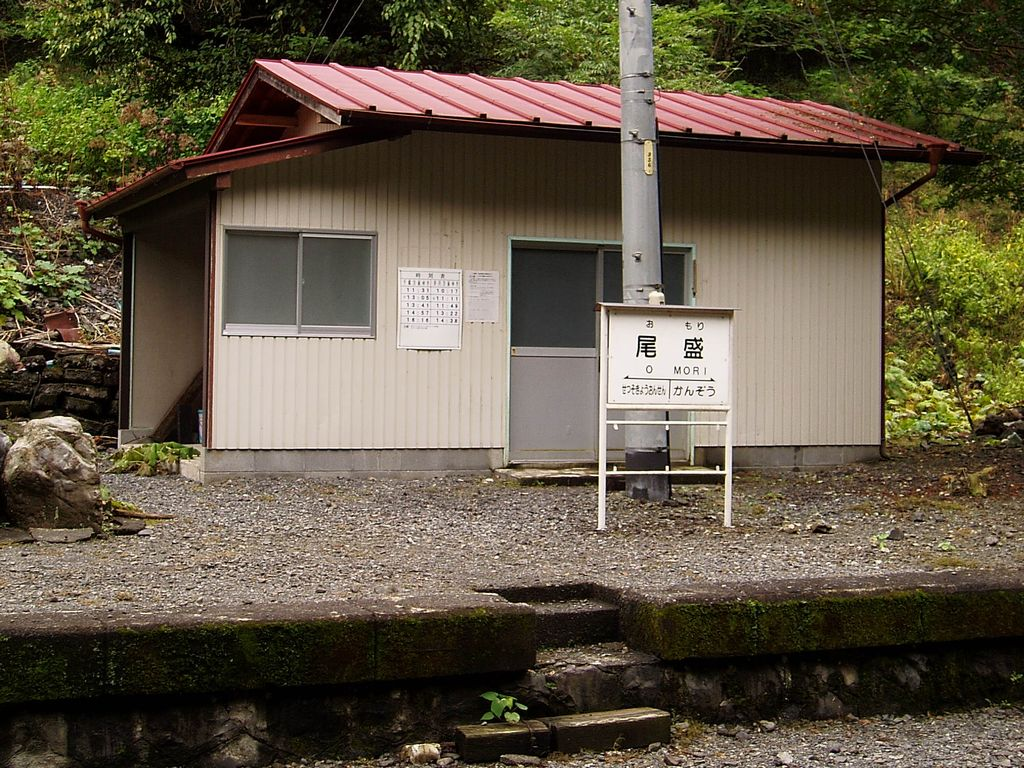 Omori Sta.